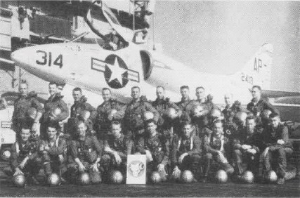 The personnel of attack squadron VA-83 Rampagers in front of a Douglas A4D-2 Skyhawk (BuNos 142418). VA-83 was assigned to Air Task Group 201 (ATG-201) on the aircraft carrier USS Essex (CVA-9) during a deployment to the Mediterranean Sea and the Indian Ocean from 2 February to 17 November 1958. The A4D-2 wears the seldom seen tail code "AP".